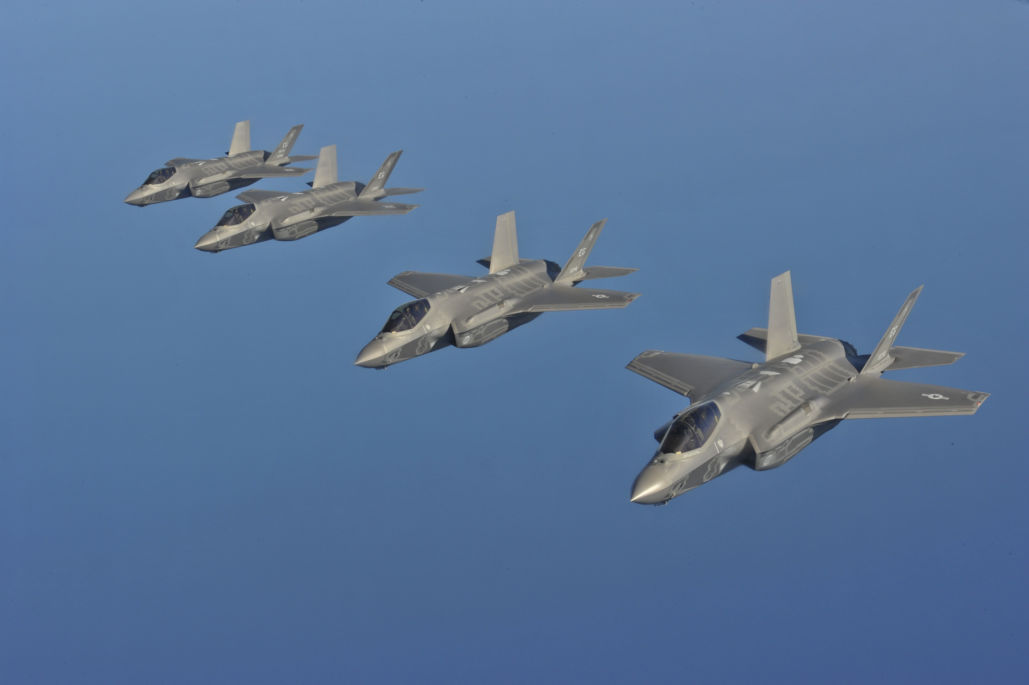 U.S. Air Force F-35A Lightning II Joint Strike Fighters from the 58th Fighter Squadron, 33rd Fighter Wing, Eglin AFB, Fla. perform an aerial refueling mission with a KC-135 Stratotanker from the 336th Air Refueling Squadron from March ARB, Calif., May 14th, 2013 off the coast of Northwest Florida. The 33rd Fighter Wing is a joint graduate flying and maintenance training wing that trains Air Force, Marine, Navy and international partner operators and maintainers of the F-35 Lightning II.